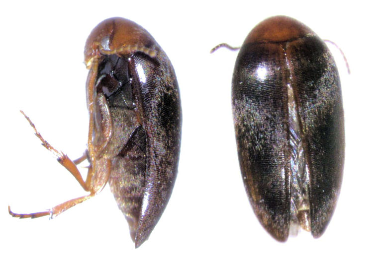 adult Eucinetus stewarti